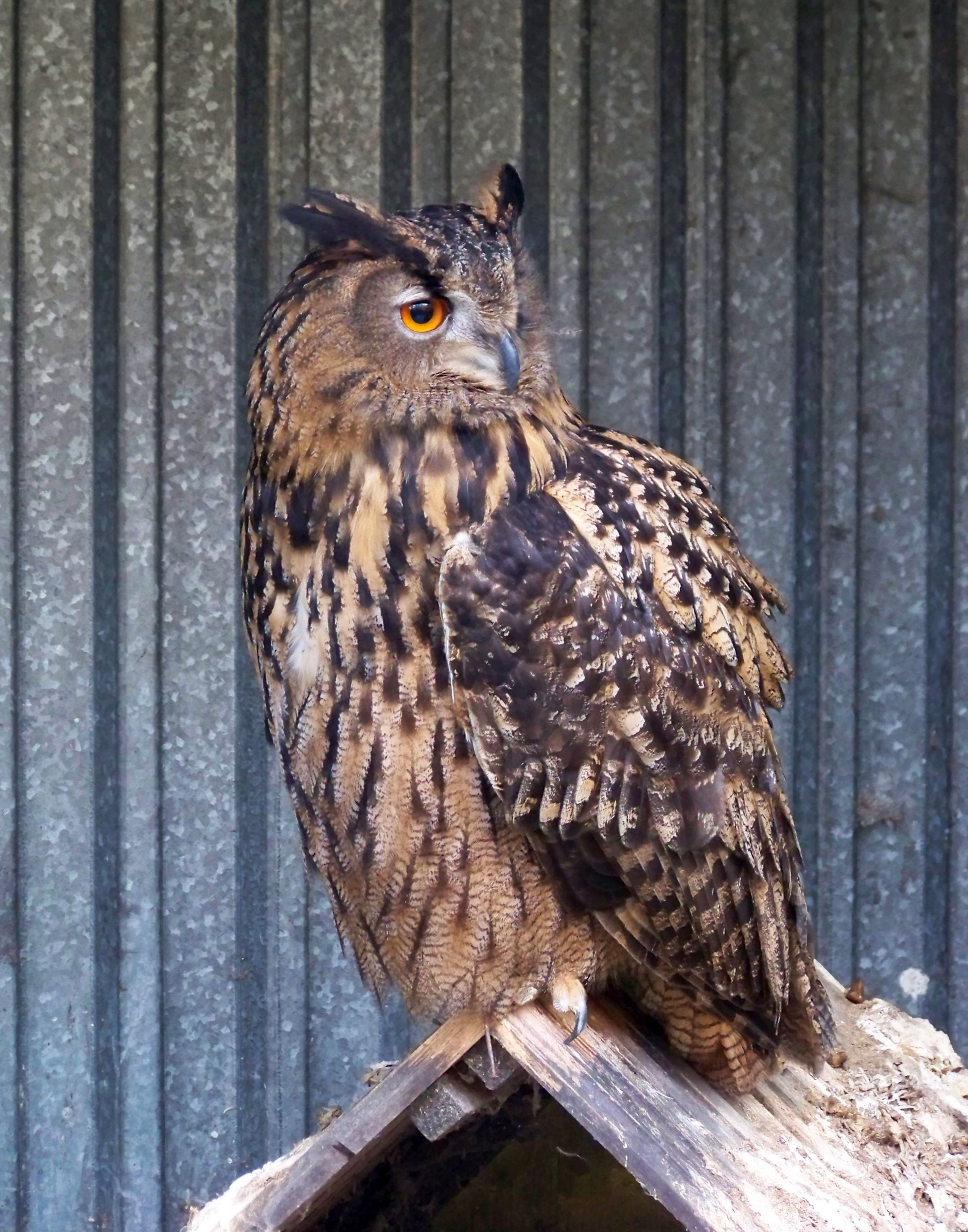 Dolní Břežany-Lhota, Prague-West District, Central Bohemian Region, the Czech Republic. Bubo bubo.